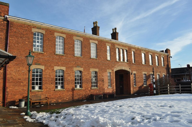 Museum of Lincolnshire Life, near to Lincoln, Lincolnshire, Great Britain. The museum occupies a listed former barracks, built in 1857 for the Royal North Lincoln Militia. The museum houses one of the first tanks developed during World War I by the local firm of William Foster & Co. of Lincoln. The tank, named "Flirt II" is a Mark IV Female. The museum also has exhibits featuring recreations of old shops, house interiors along with an extensive collection of early farm machinery, with examples of machines built by local companies, such as the Field Marshall tractor built in Gainsborough, Lincolnshire by Marshall, Sons & Co.